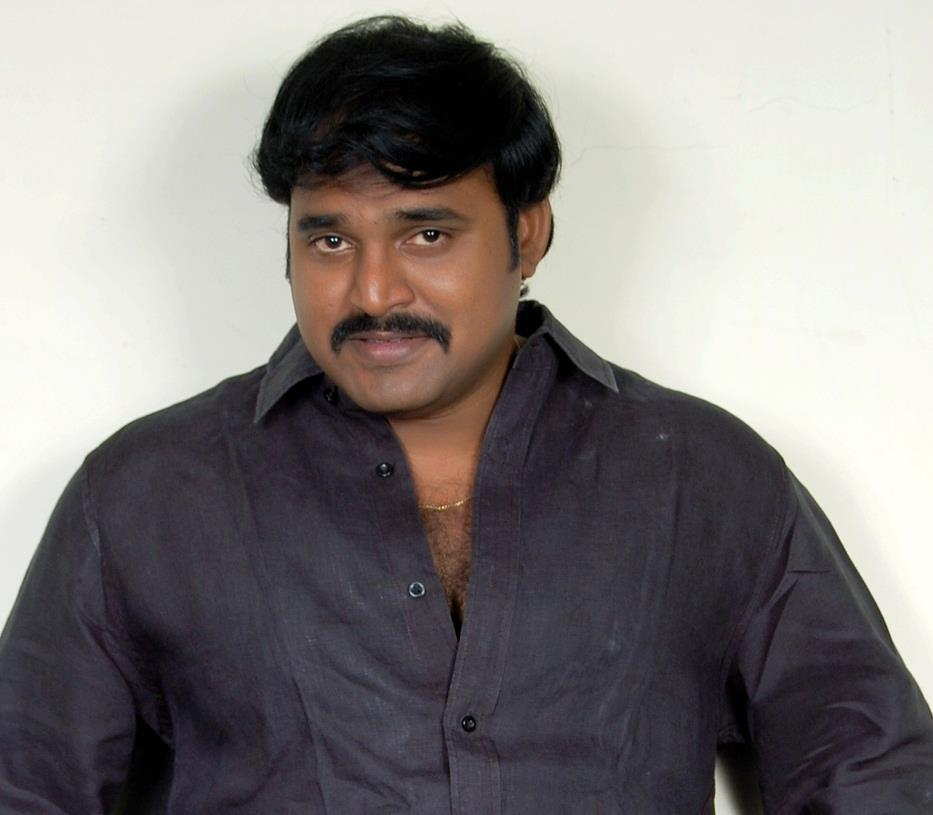 ఎం.ఎస్. చౌదరి